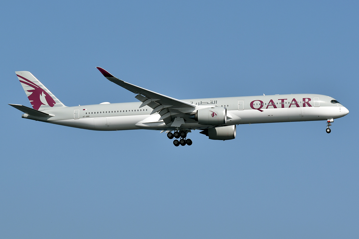 Qatar Airways, A7-ANG, Airbus A350-1041